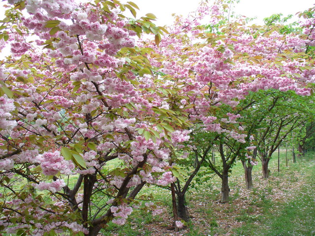 Flowering Cherries at Brogdale, near to Whitehill, Kent, Great Britain. Spring at the National Fruit Collection.